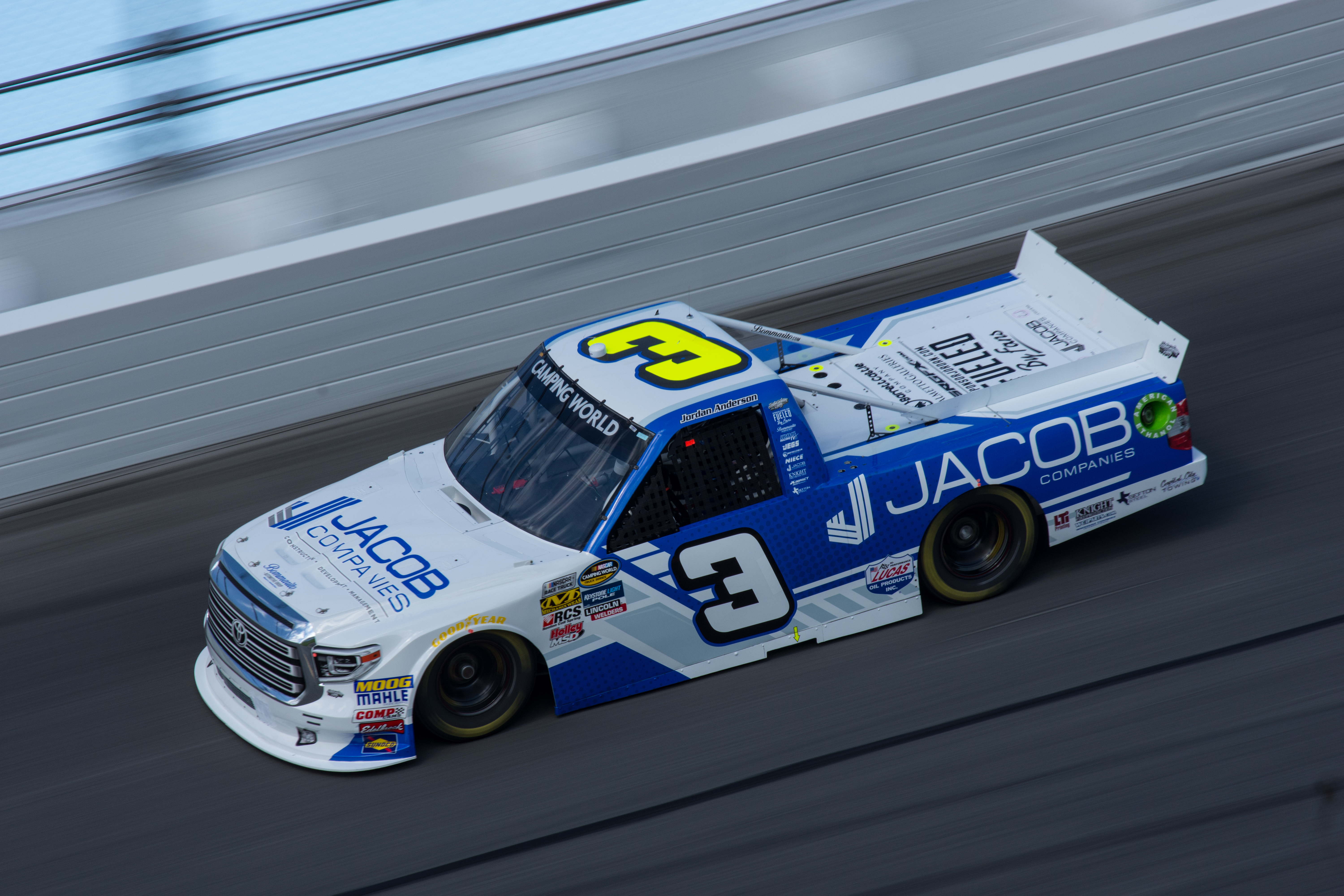 Jordan Anderson on track in his Jordan Anderson Racing #3 entry at the Daytona International Speedway in his Bommarito Automotive Group/ Jacob Companies Nascar Camping World Truck.